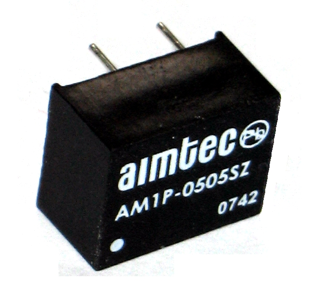 dc to dc converter. Datasheet